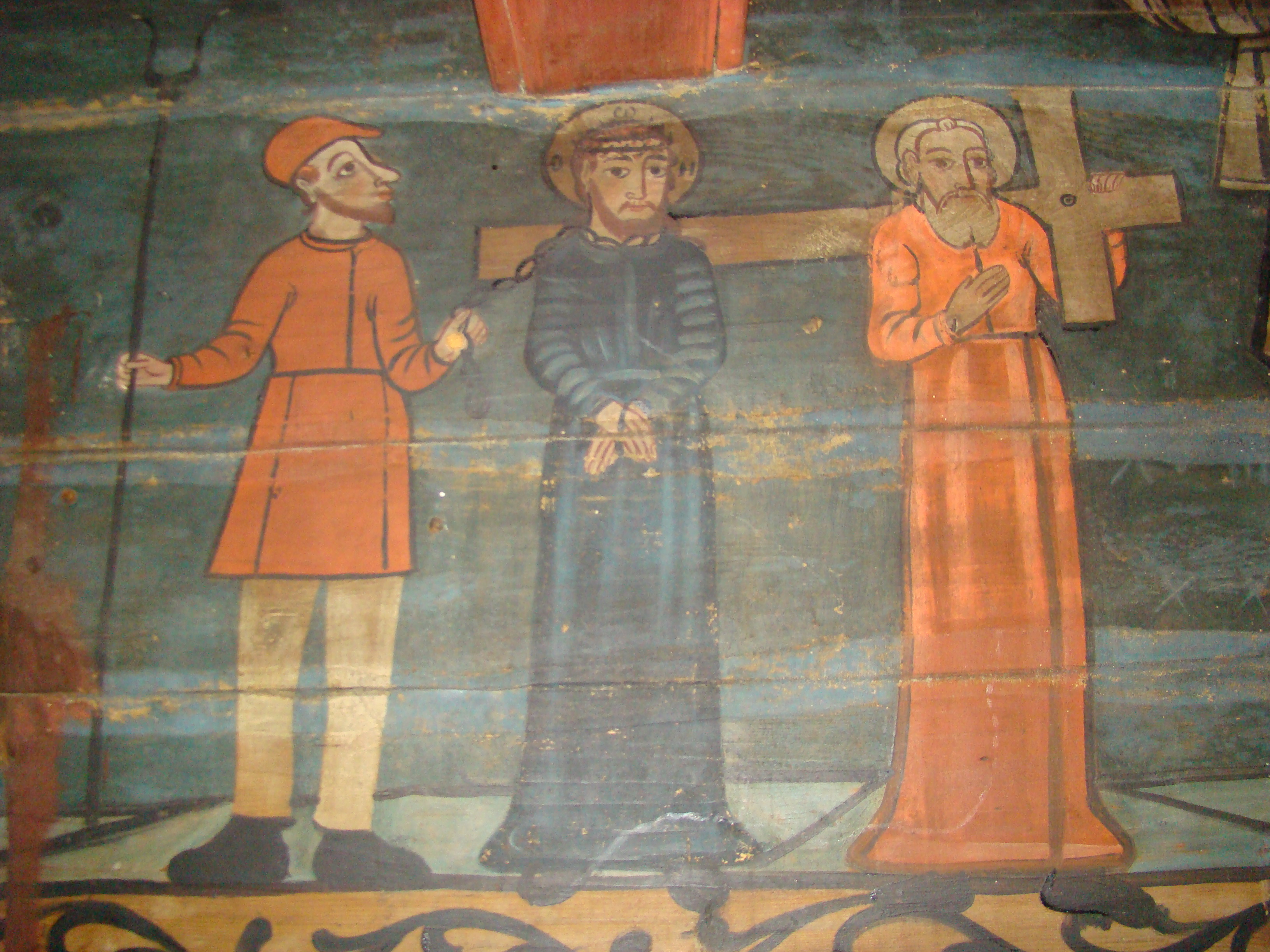 Rotărești, Bihor county, Romania: the wooden church